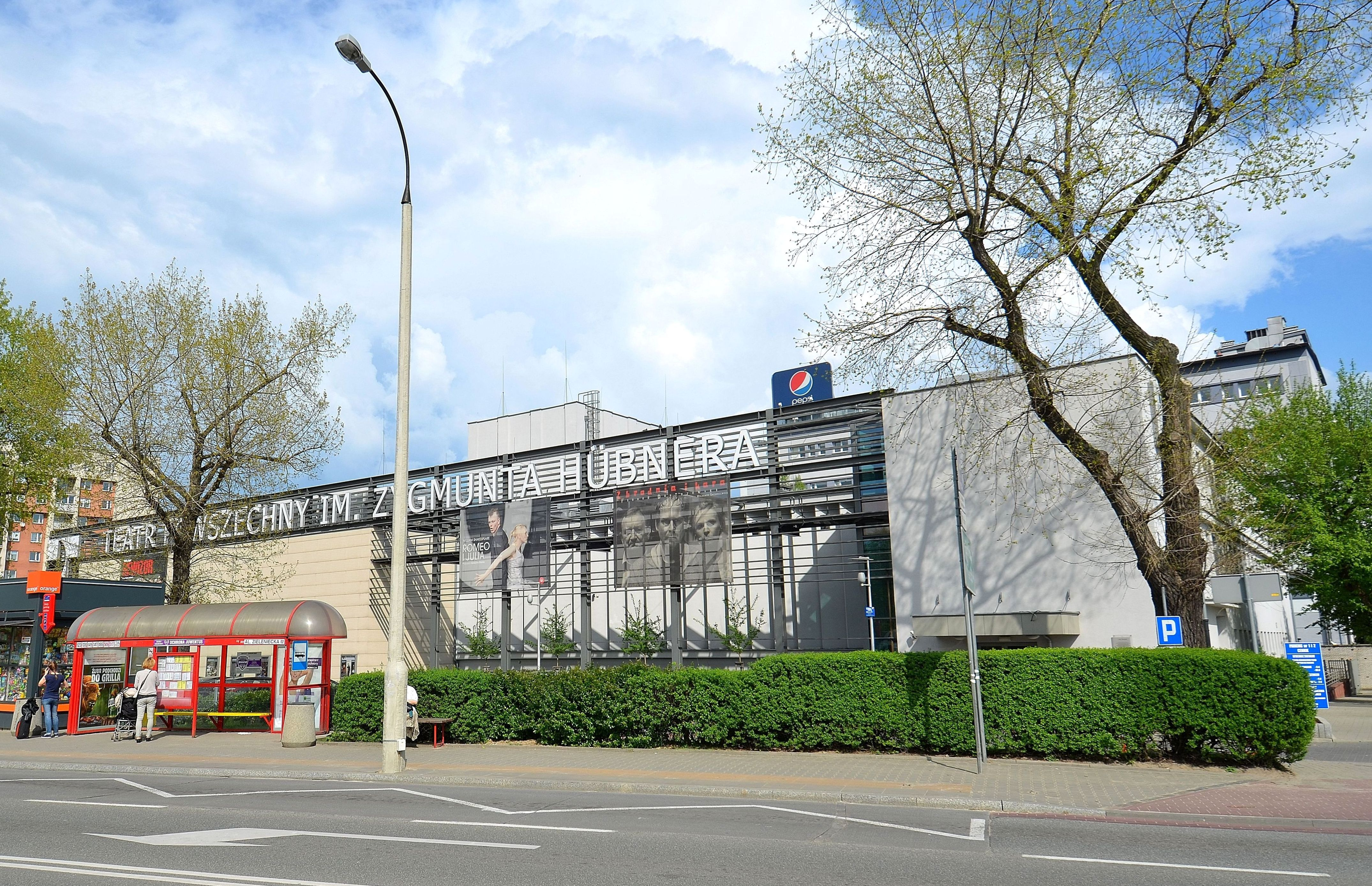 Teatr Powszechny im. Zygmunta Hübnera w Warszawie